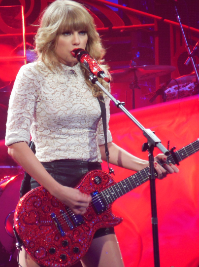 Swift playing electric guitar